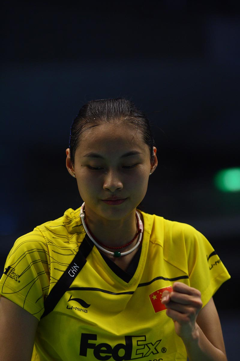 SEPTEMBER 26, 2009 - Badminton : Yonex Open Japan 2009 at Tokyo Metropolitan Gymnasium on September 24, 2009 in Tokyo, Japan. Wang Yihan from China. (Photo by Tsutomu Takasu)